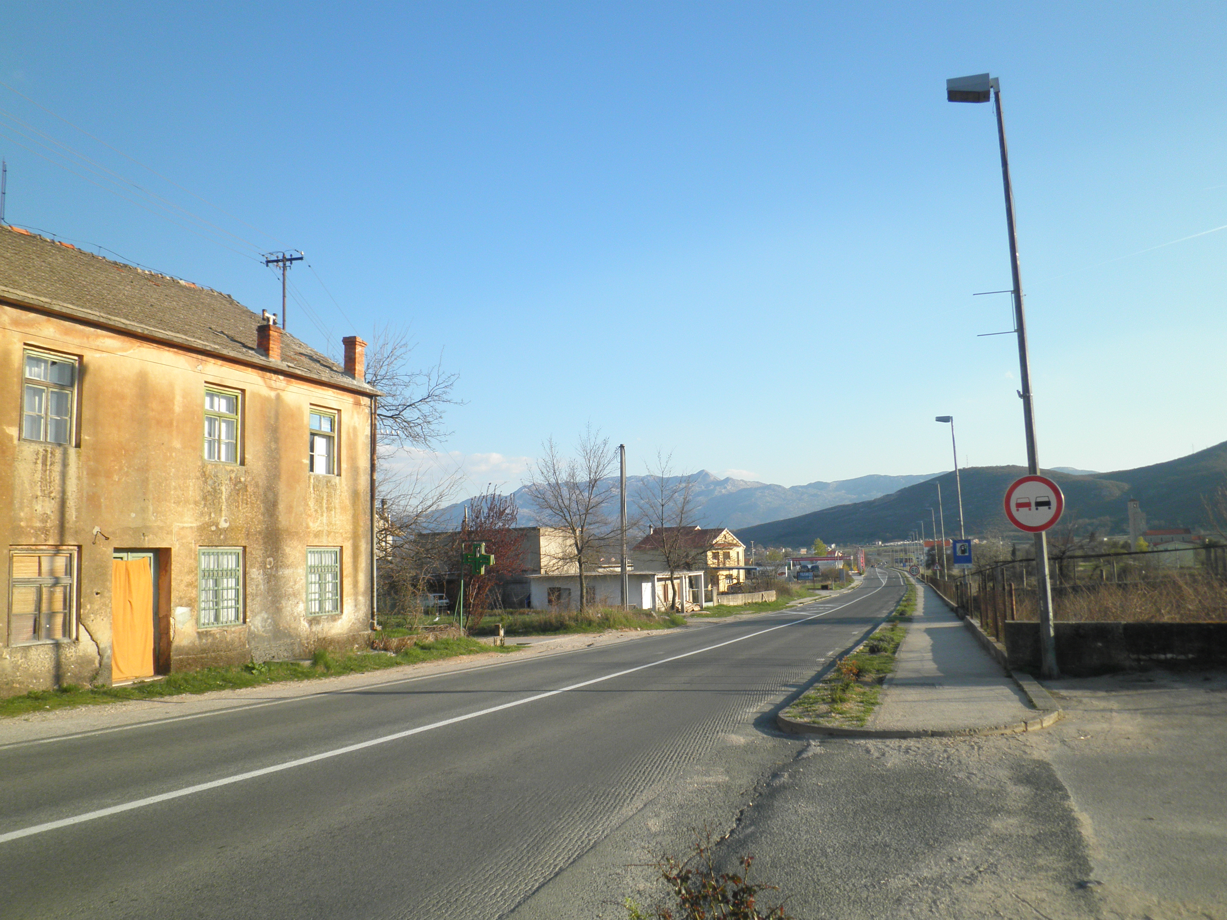 The D1 in Dicmo, looking south towards Split.